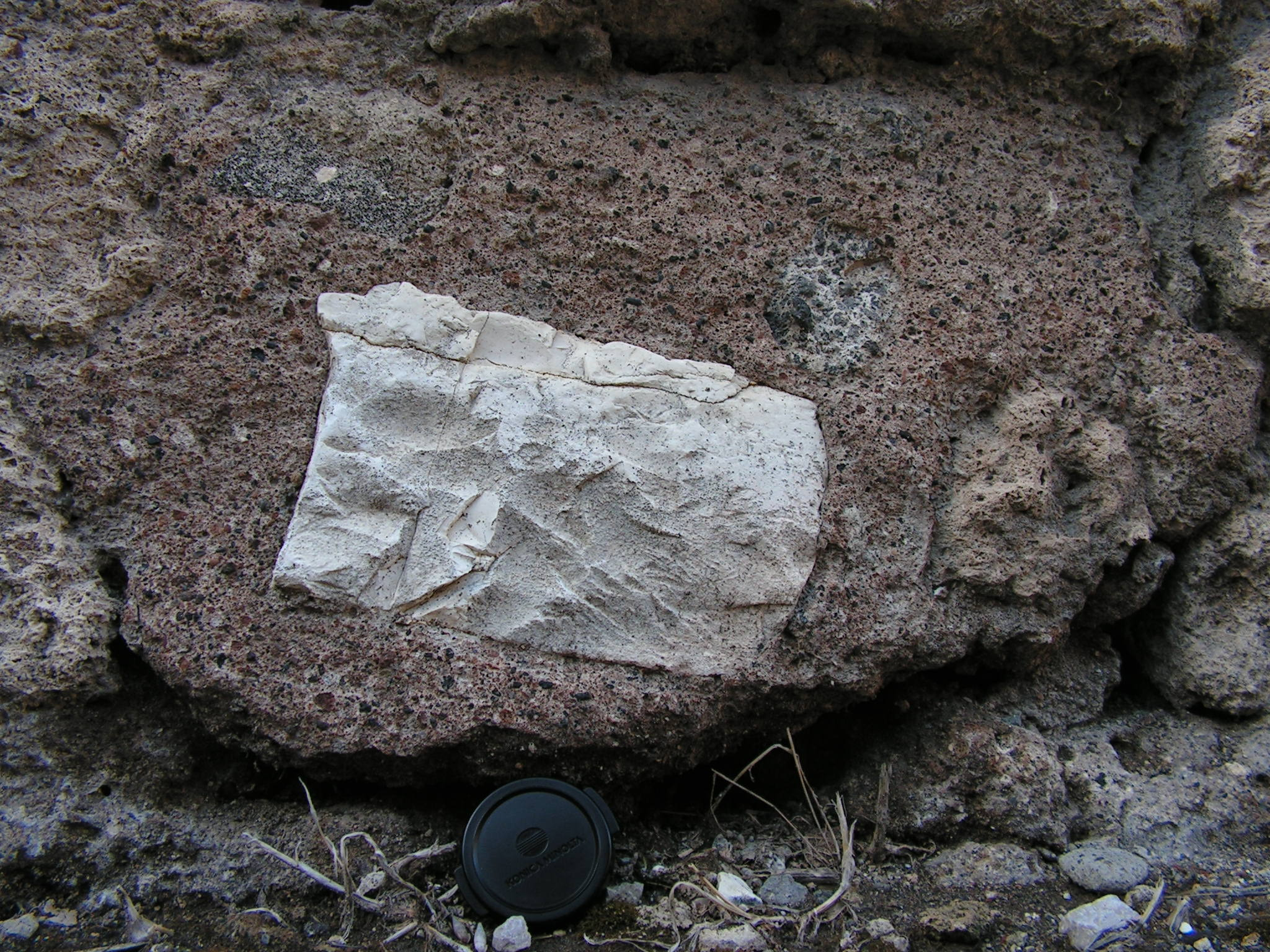 en White limestone xenolith in porous red-brown lava from Mt. Vesuvius, Pompei Italy. de Weißer Kalkstein-Xenolith in poröser rot-brauner Lava des Vesuvs, Pompeji, Italien.